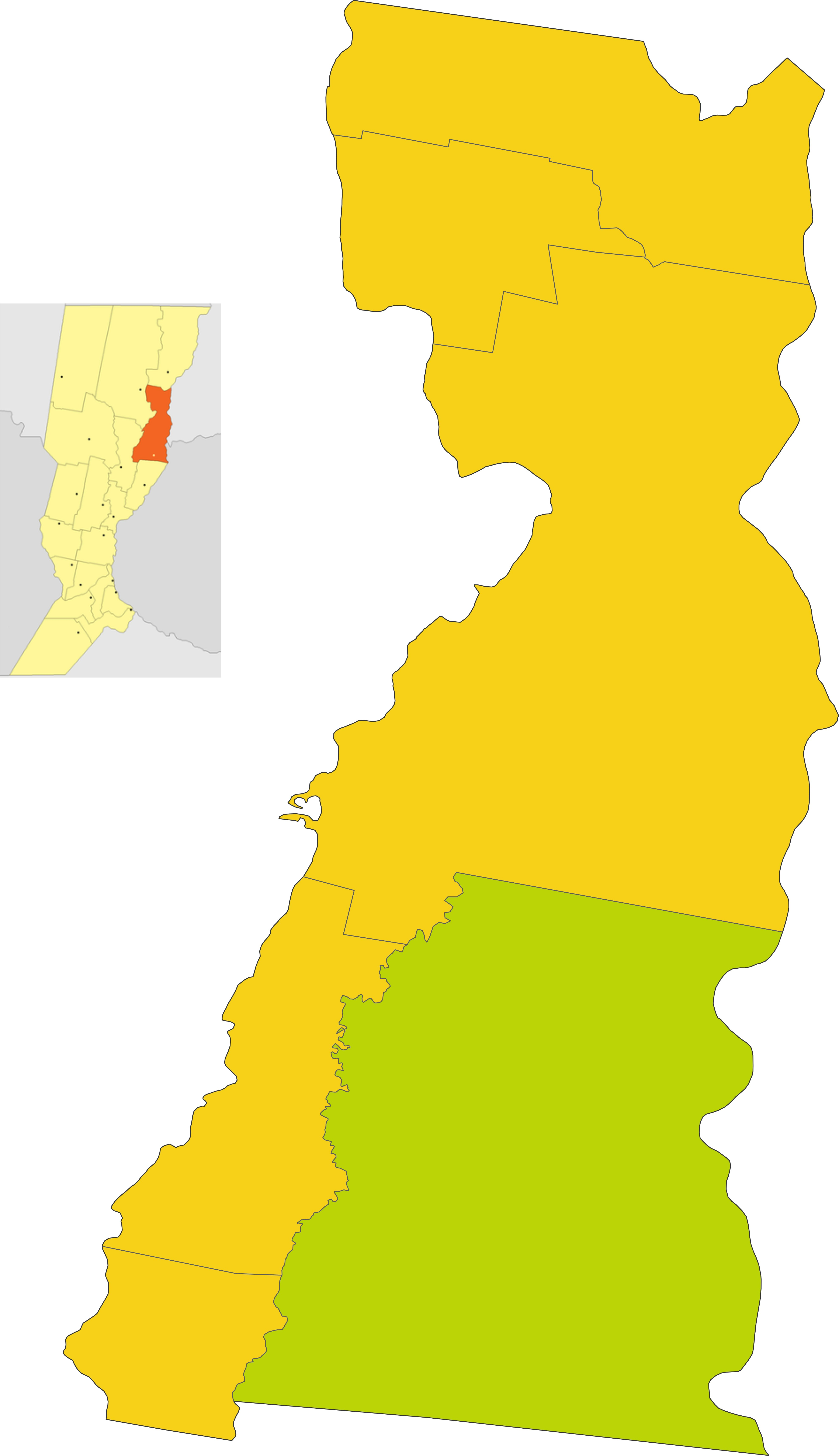 Map of the municipio de San Javier in San Javier department, Santa Fe province, Argentina